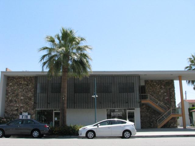 Rackstrom-Reid Building in Palm Springs